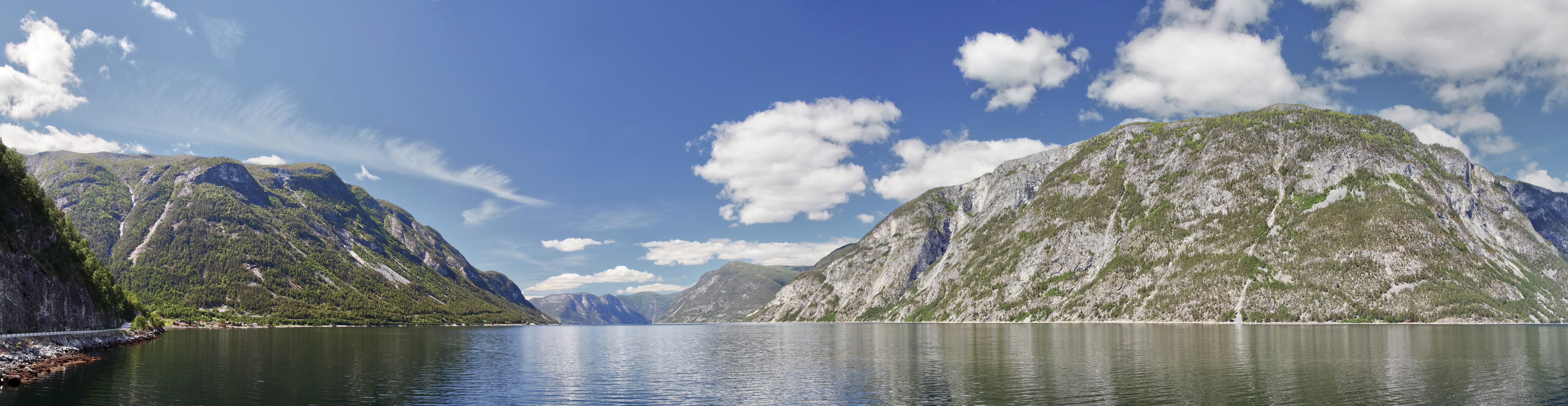 A view to Årdalsfjorden towards west from Årøyni in Årdal municipality, Sogn og Fjordane, Norway in 2013 June. Årdalsfjorden is part of the large Sognefjorden.